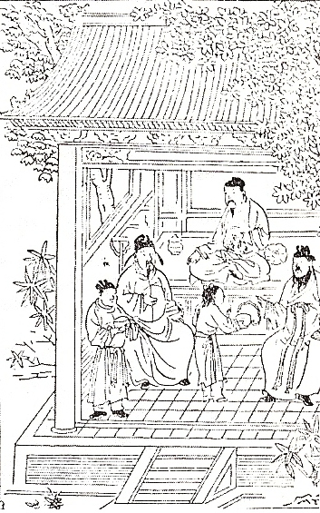 In the caption for this picture, Robert Temple writes: Deficiency diseases were recognized in China by at least the 3rd century AD. Here we see the frontispiece to the classic discussion of the subject, Principles of Correct Diet by Hu Ssu-Hui, published in 1330. The picture shows nutritian specialists giving a consultation to a patient. The caption reads: 'Many diseases can be cured by diet alone.'